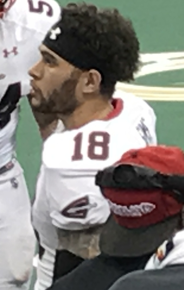 Gladiators during a timeout